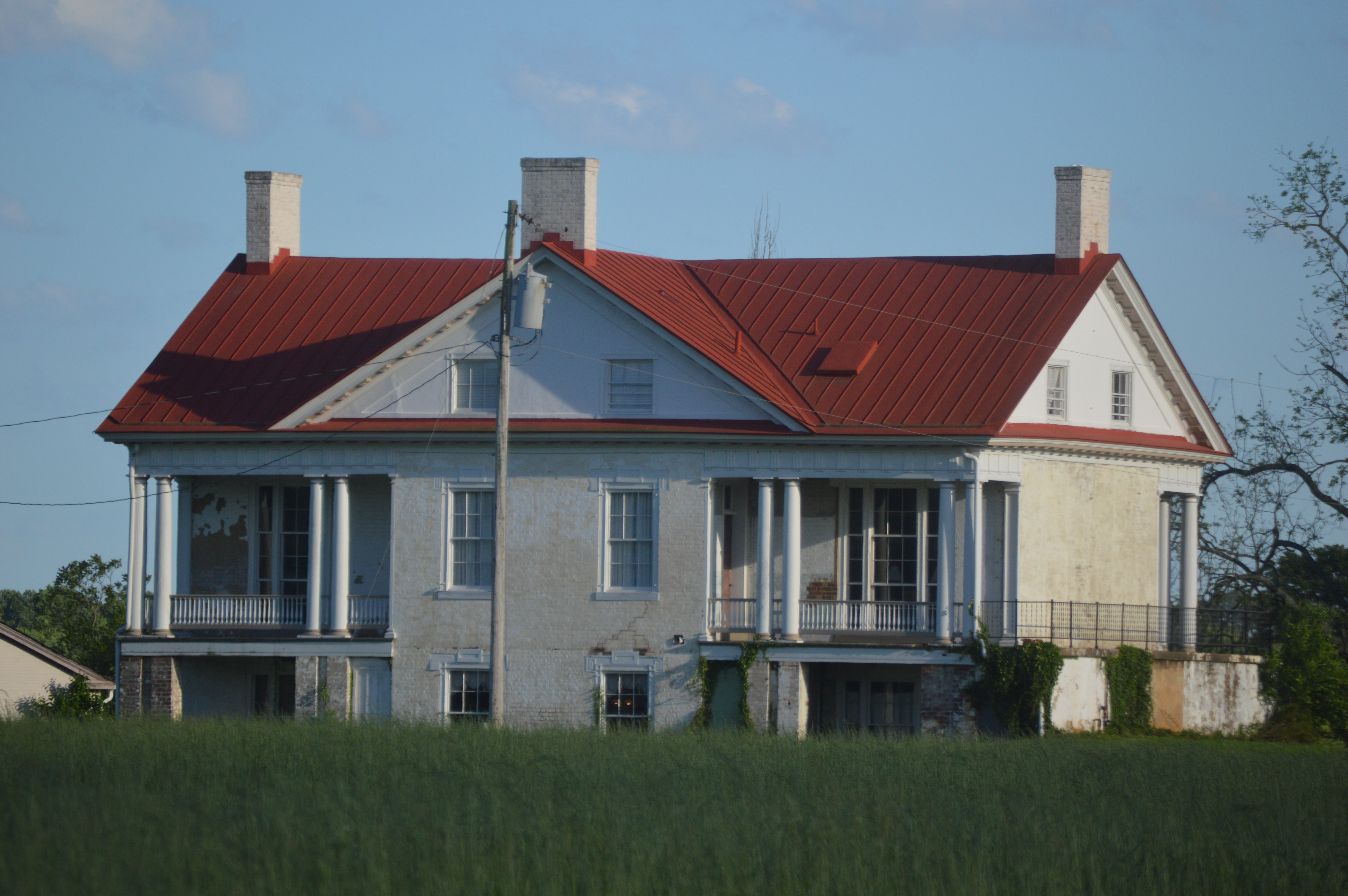 Northern side (rear) of the Otterburn farmhouse, located on State Route 122 immediately south of Liberty High School and north of Bedford in Bedford County, Virginia, United States. Built in 1843, it is listed on the National Register of Historic Places.